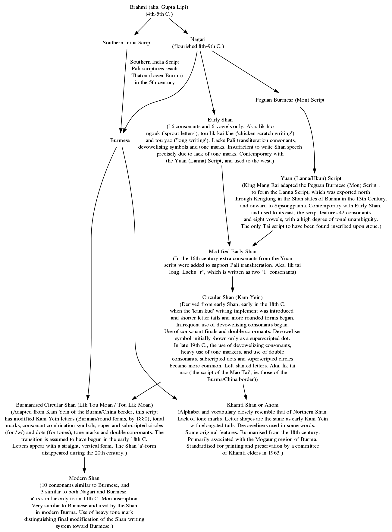 Summary of the evolution of Tai scripts as reported in Sai Kam Mong's 'The Shan Script' book.